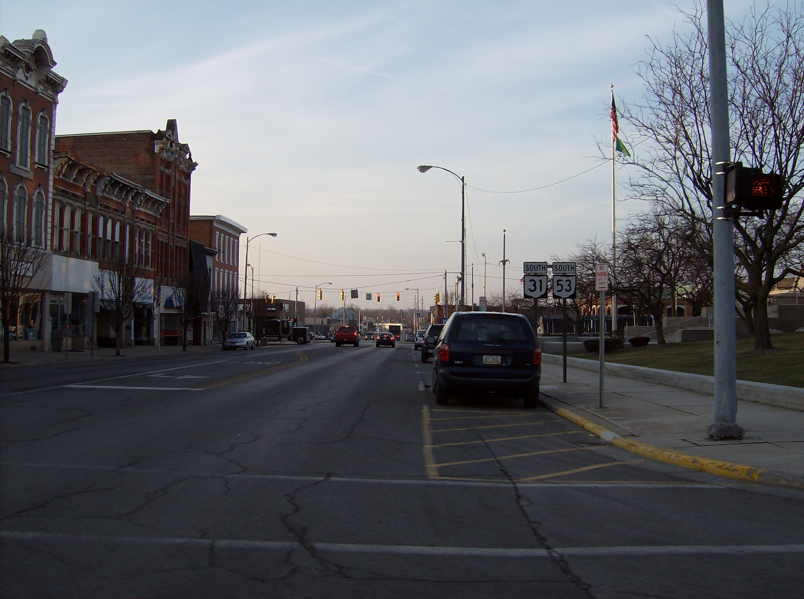 Looking south from State Route 67 along State Routes 31 and 53 in downtown Kenton, Ohio, United States. Part of the Kenton Courthouse Square Historic District.